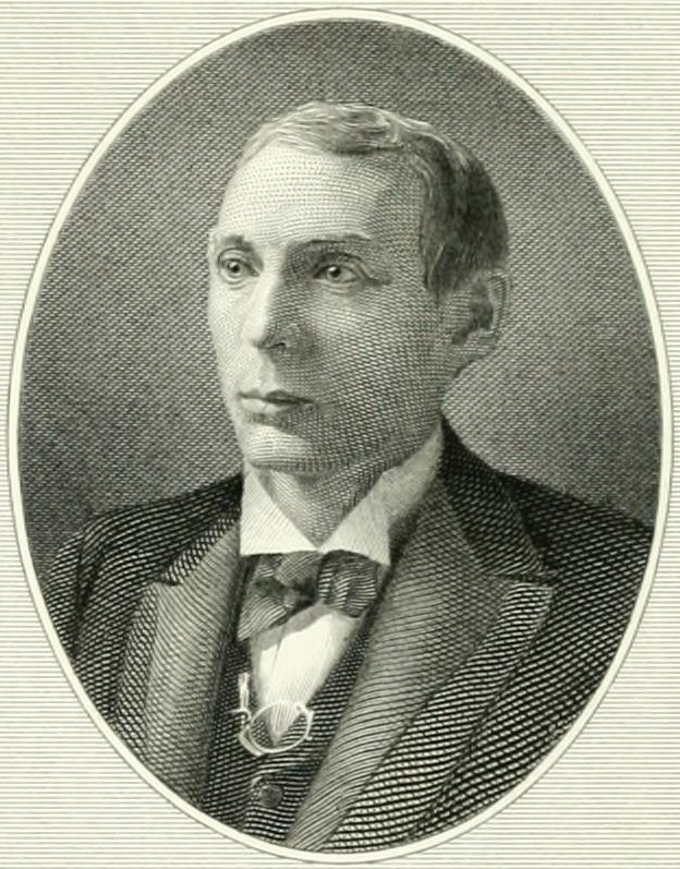 Francis W. Cushman (Washington Congressman)